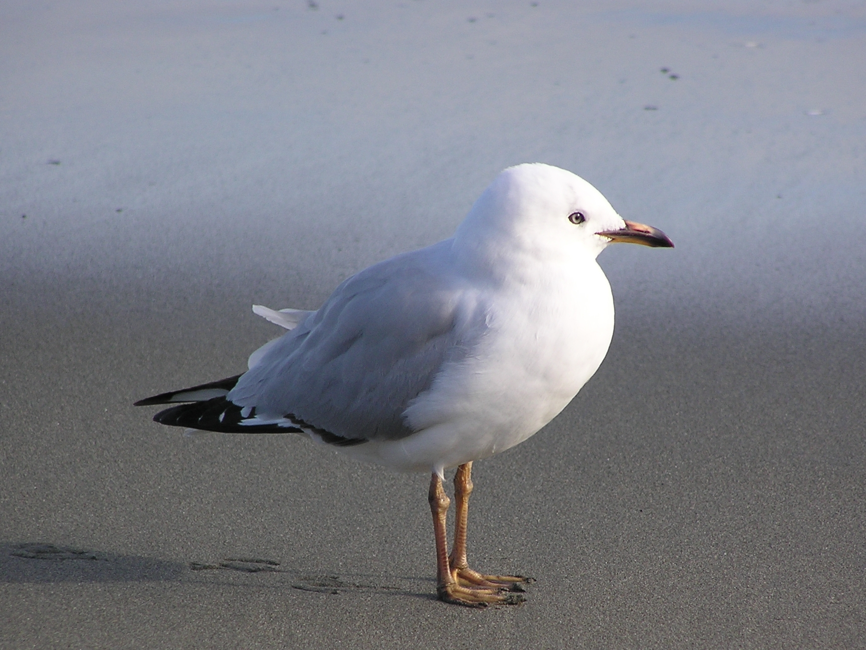 Immature Red billed gull posing. Petone beach, Wellington Harbour, Wellington, New Zealand.